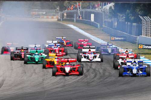 Start of the second race of SuperLeague in Autódromo do Estoril Contribution by: Nikon D300 + Sigma 100-300